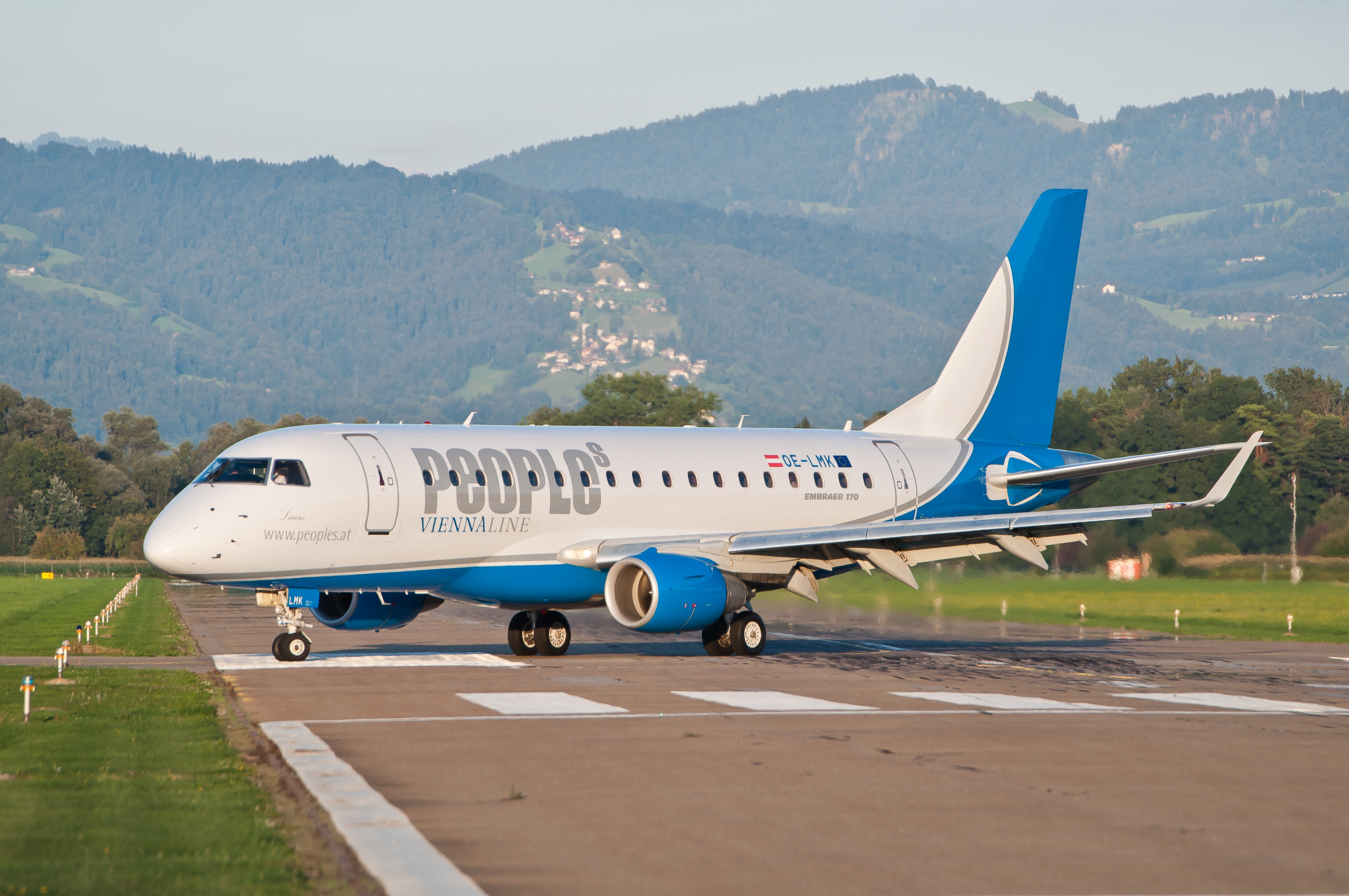 People’s Viennaline Embraer E-170-100, Registration: OE-LMK landing at St. Gallen-Altenrhein Airport (LSZR)